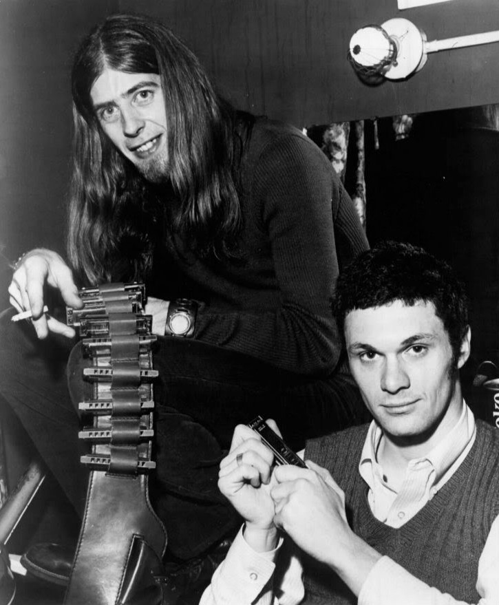 Photo of John Mayall (left) and Duster Bennett backstage during their 1970 US tour.